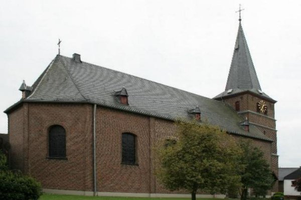 Cultural heritage monument No. 41 in Erkelenz